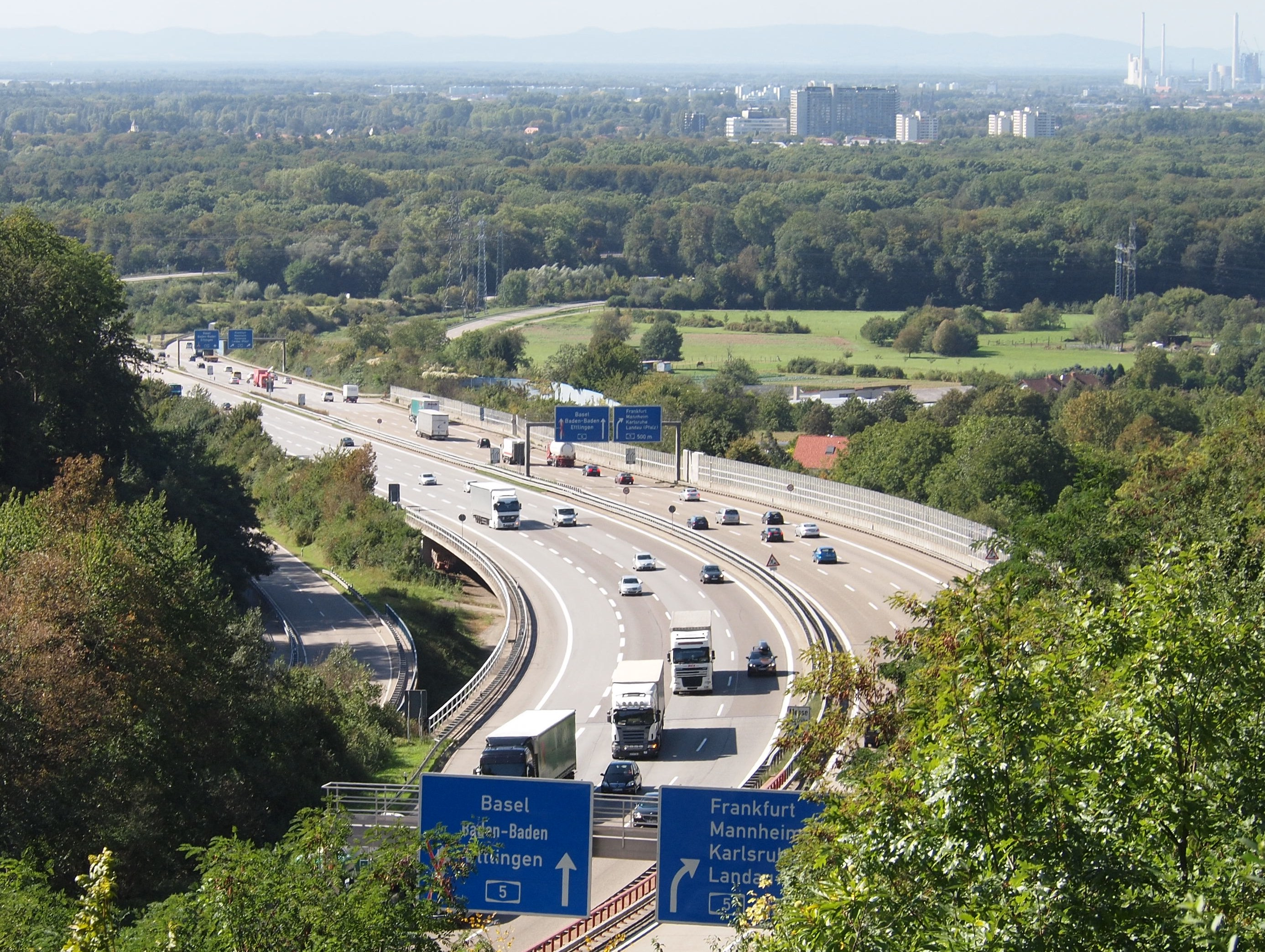 The German highway A8 near the highway crossing of Karlsruhe